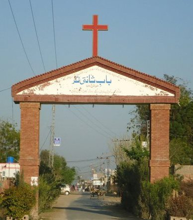 Shanti Nagar village gate, Khanewal District, Punjab, Pakistan